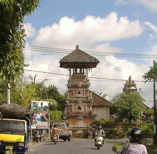 View of the temple tower looking North along Jalan Trenggana.